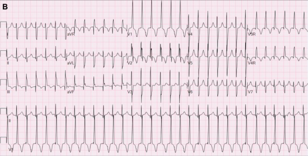 Electrocardiogram showing junctional ectopic tachycardia at a rate of 205 beats/min with underlying right bundle branch block and ventriculoatrial dissociation in a 2-month-old girl.